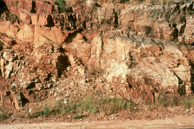 2.2 Ga Vertisol paleosol near Waterval Onder, South Africa